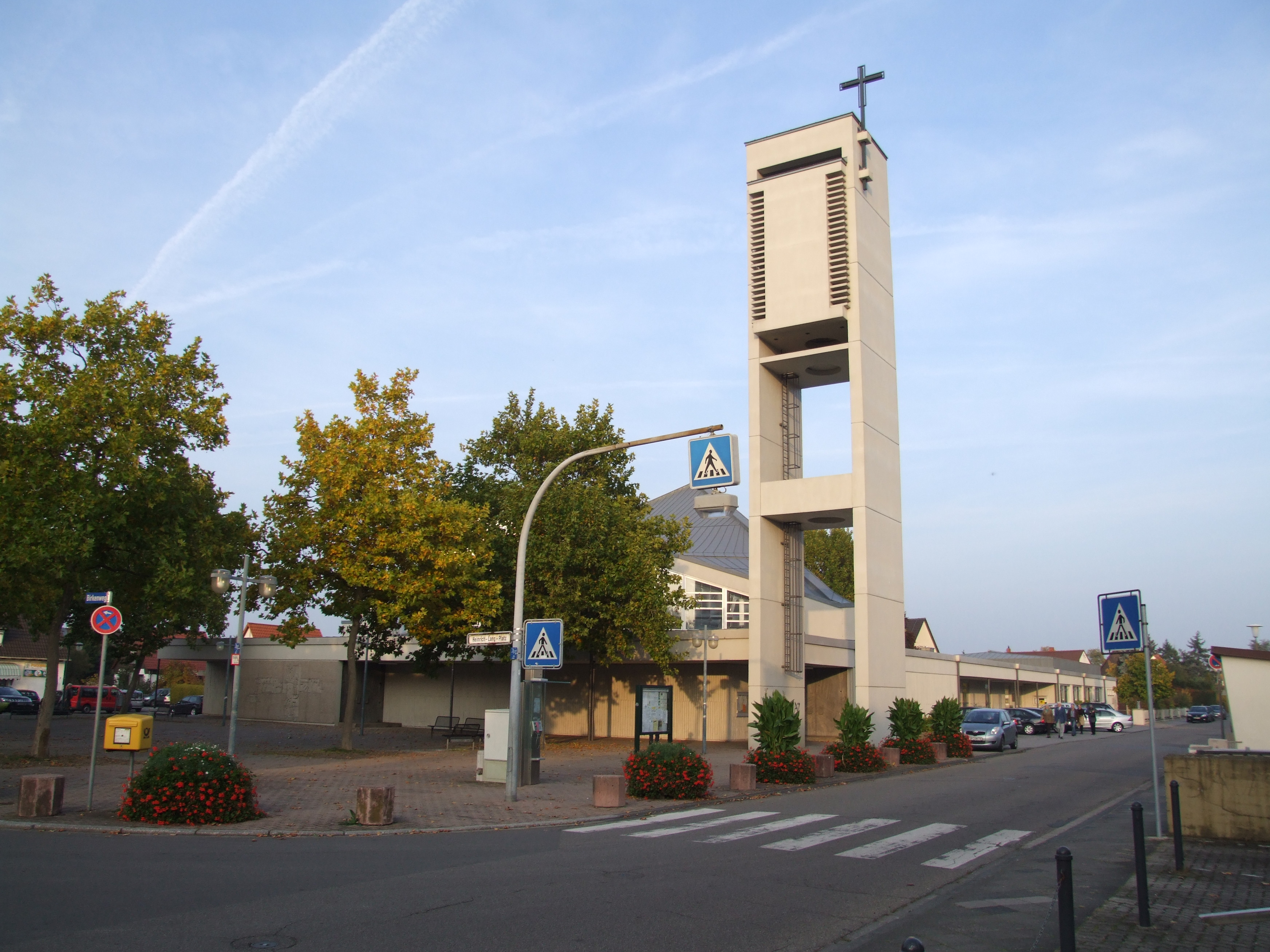 St. Konrad is a catholich church and center in Speyer-Nord, Speyer, Germany. It is a typical example of the beton style of 70ies.